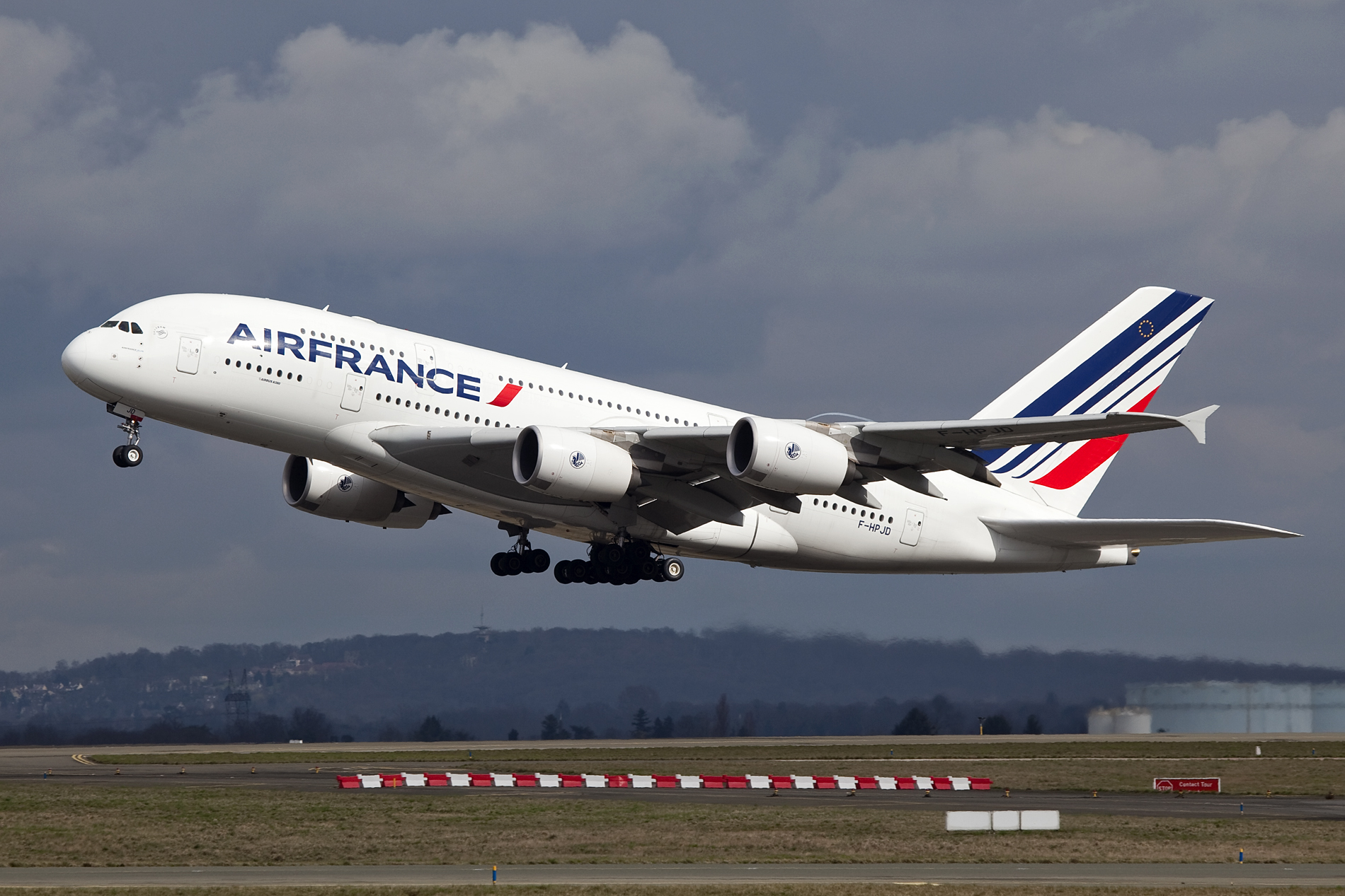 Paris-CDG